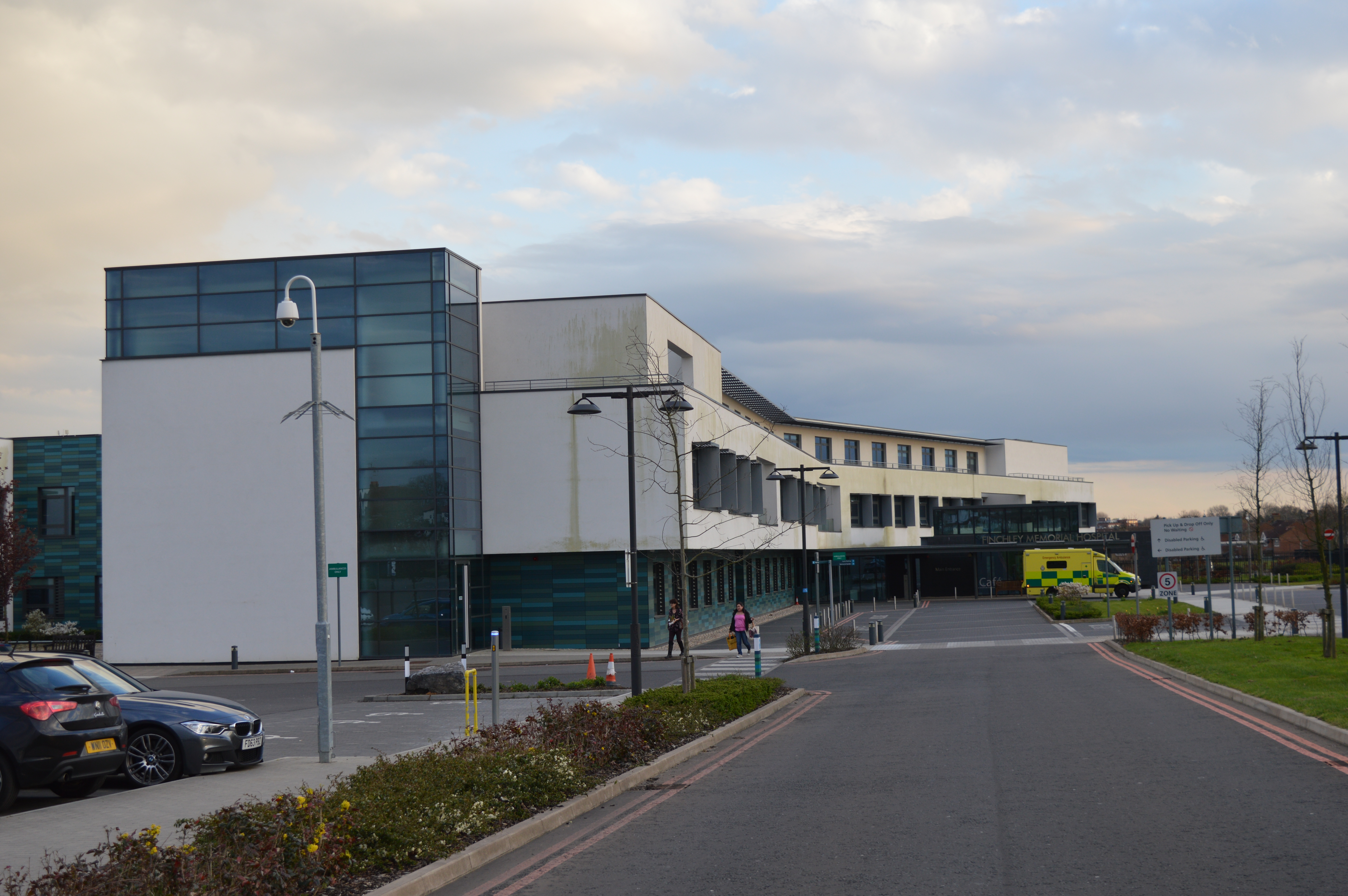 The new Finchley Memorial Hospital in north Finchley in the London Borough of Barnet. It was opened in 2012